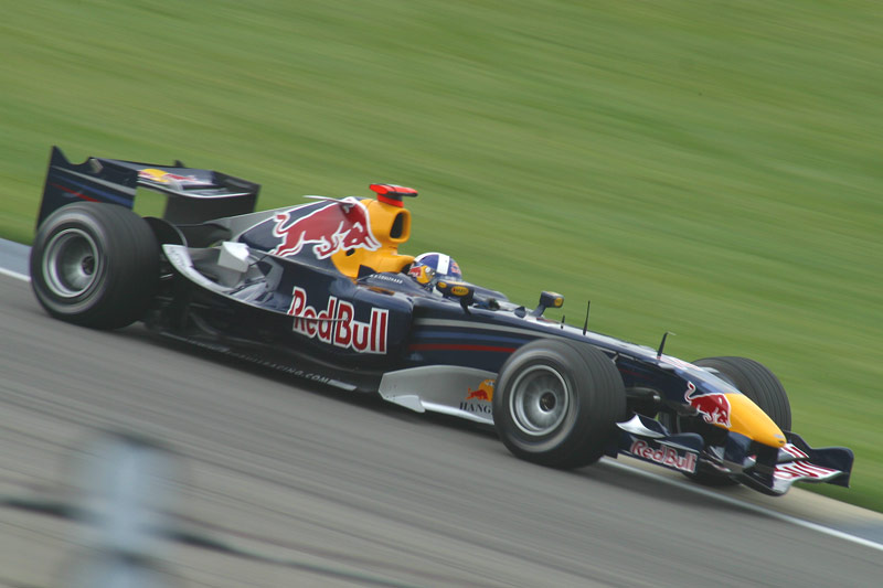 David Coulthard driving for Red Bull Racing at the 2006 United States Grand Prix.